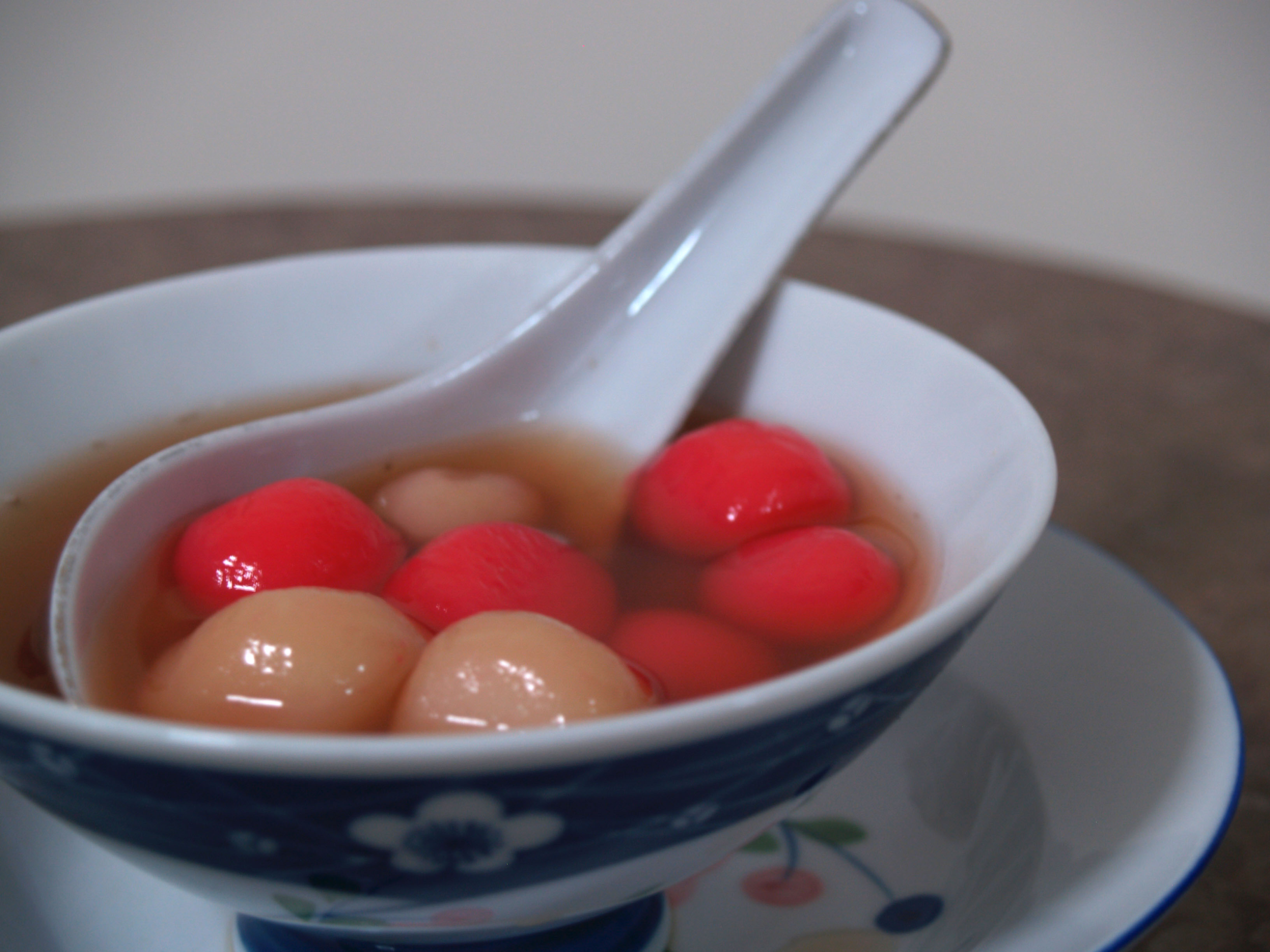 Tangyuan (food).